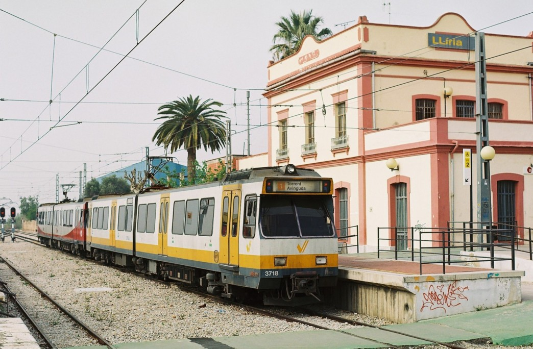 3700 en Llíria